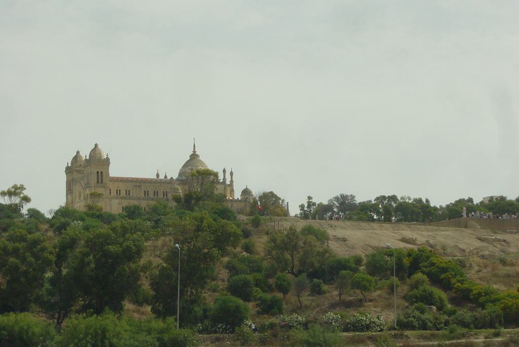 Cathedral Saint-Louis of Carthage, Carthage, Tunisia.